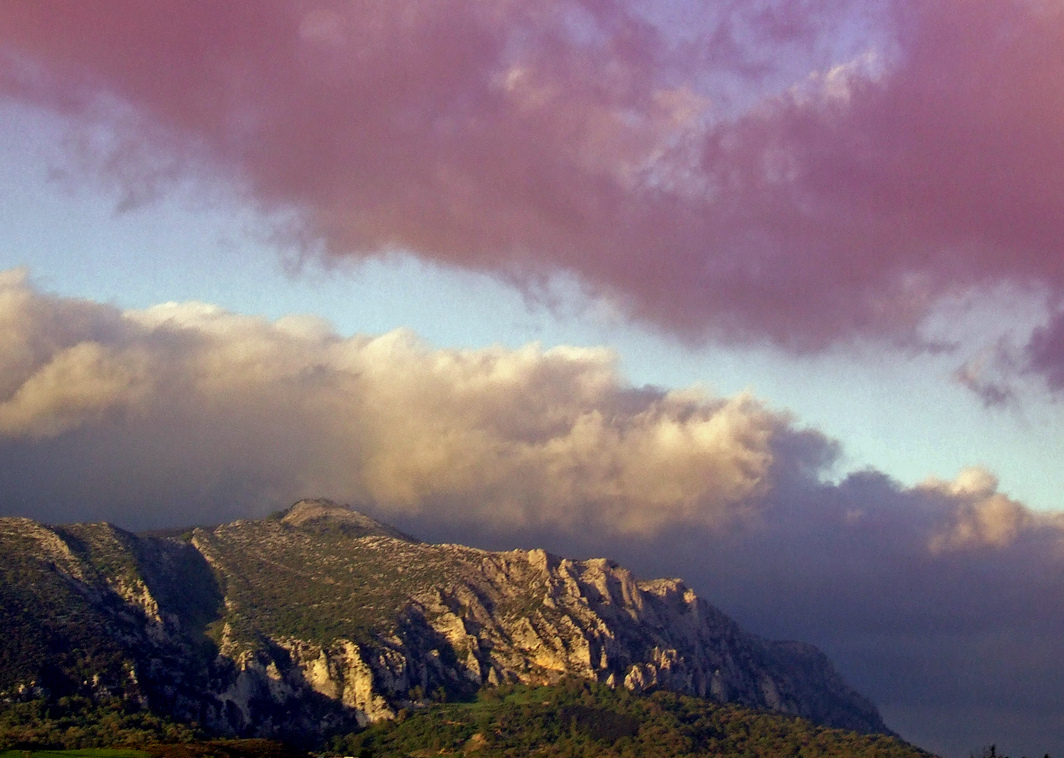 Egino and Leze in Araba.